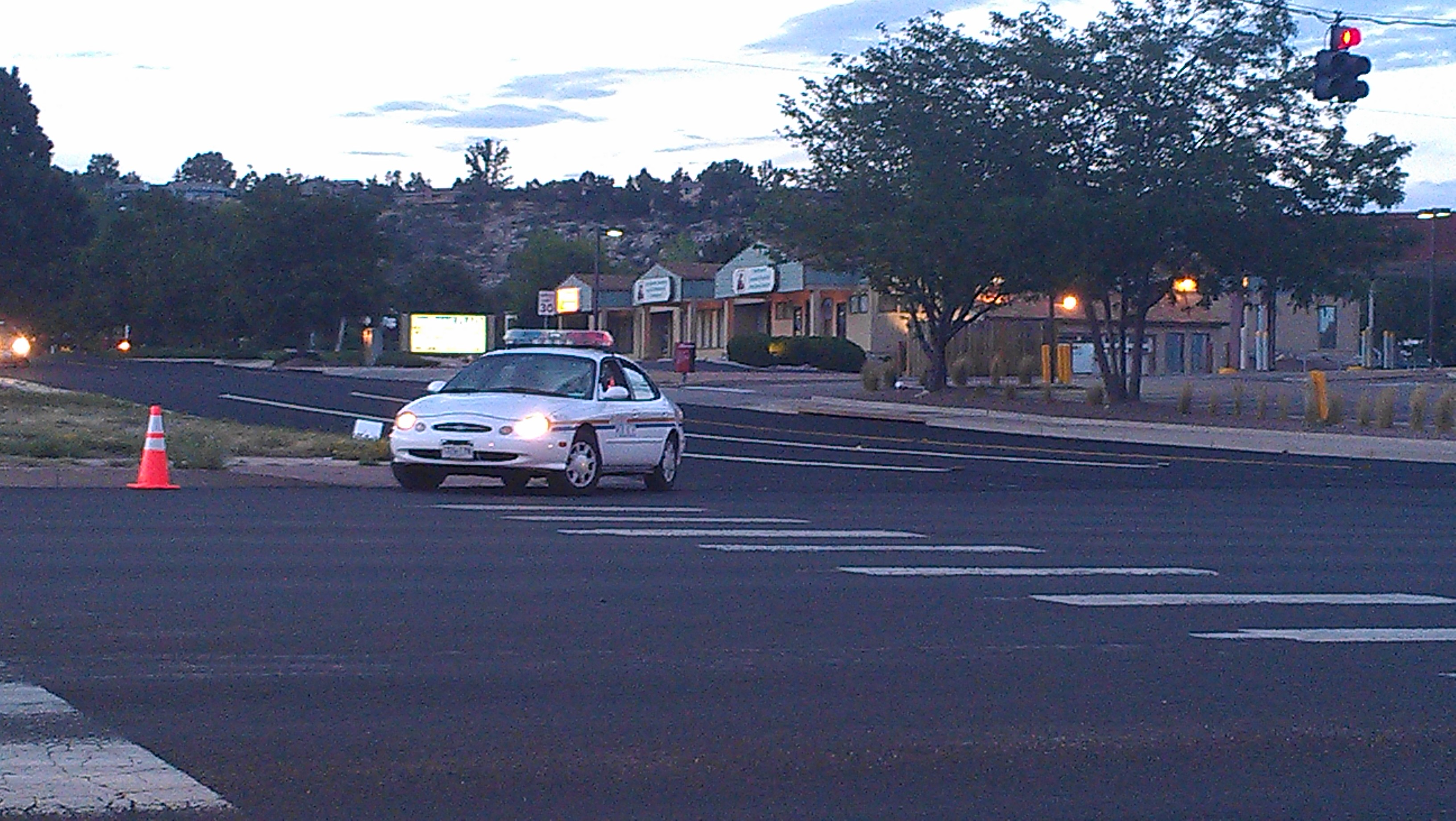 Aurora (CO) Police Officer helping with traffic in Colorado Springs. - Waldo Canyon Fire - Evening of 06-28-12